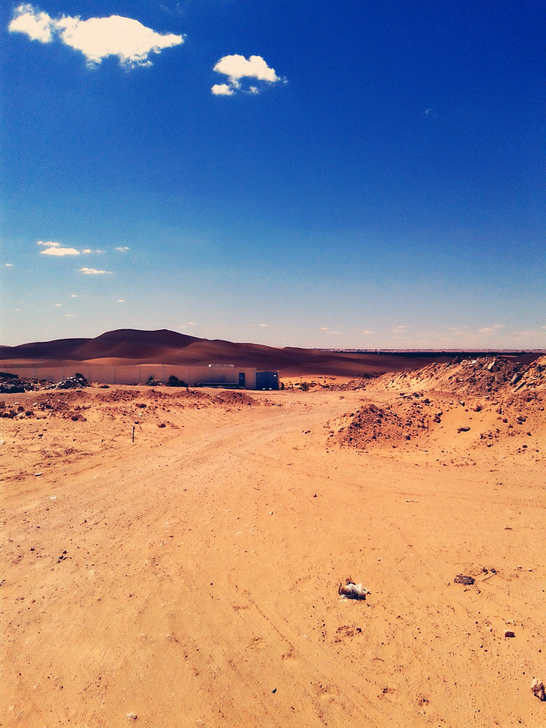 House in the middle of the beautiful Algerian desert, Ouargla, great view wow This is an image with the theme "Africa on the Move or Transport" from: Algeria